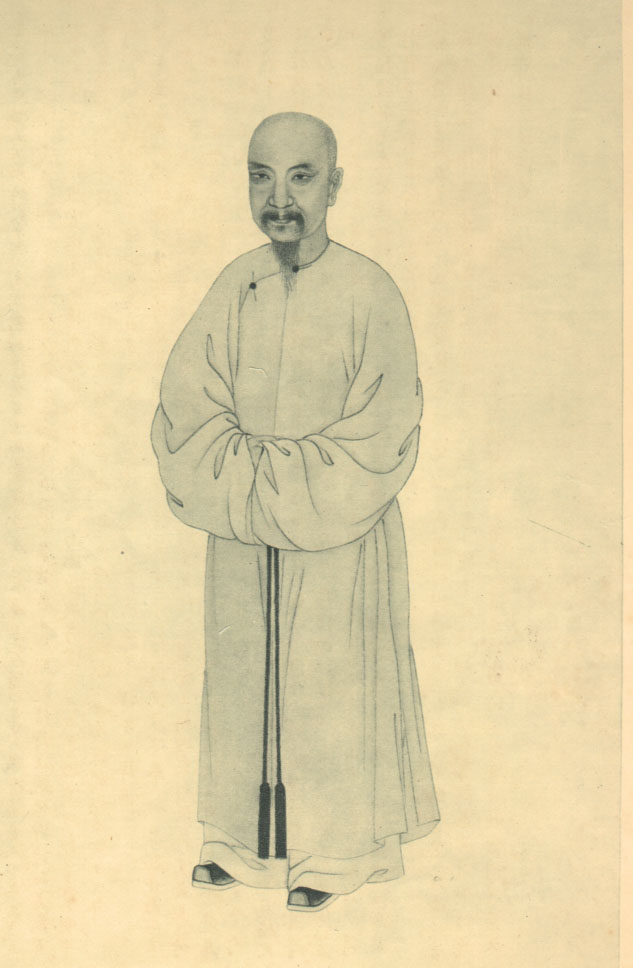 Tian Wen, politician and scholar of the Qing Dynasty.